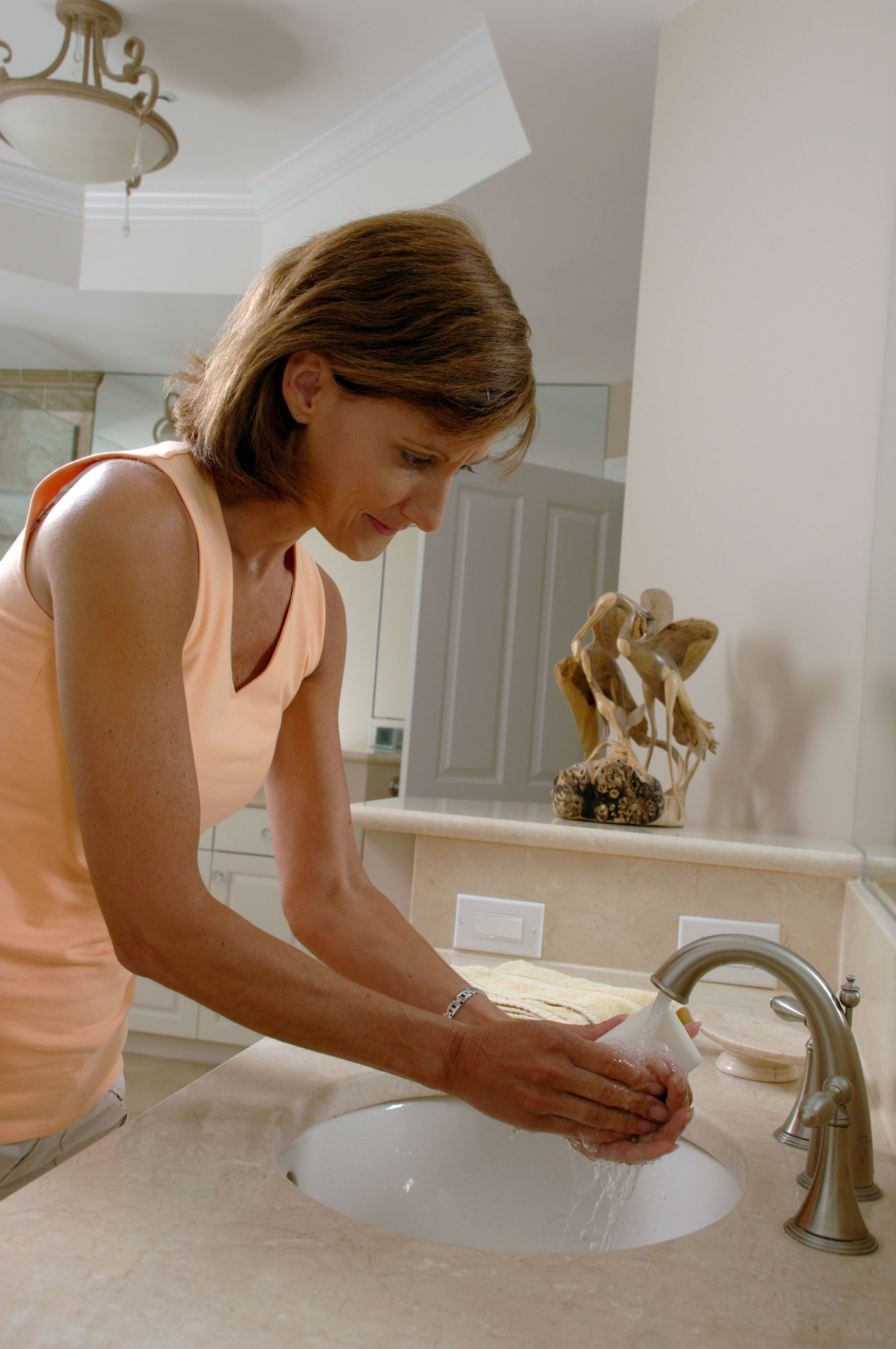 Title Woman Washing her Hands Description A Caucasian woman washing her hands. Topics/Categories People -- Adult Type Color, Photo Source National Cancer Institute